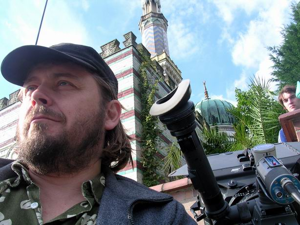 author: Thomas Frick